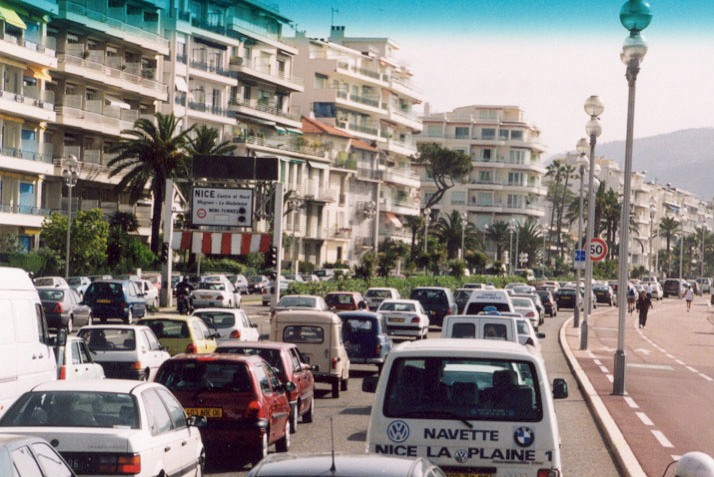 Author: Webber Source: "own work" Date: 2000